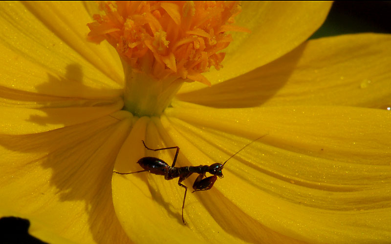 I shot this in our garden in Bangalore City in India.